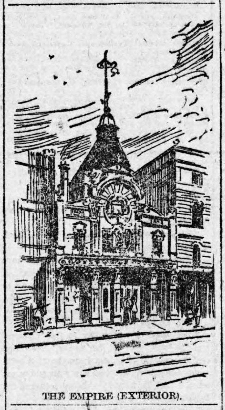 A newspaper artist's impression of the newly constructed Empire Palace of Varieties in Cardiff in 1896.